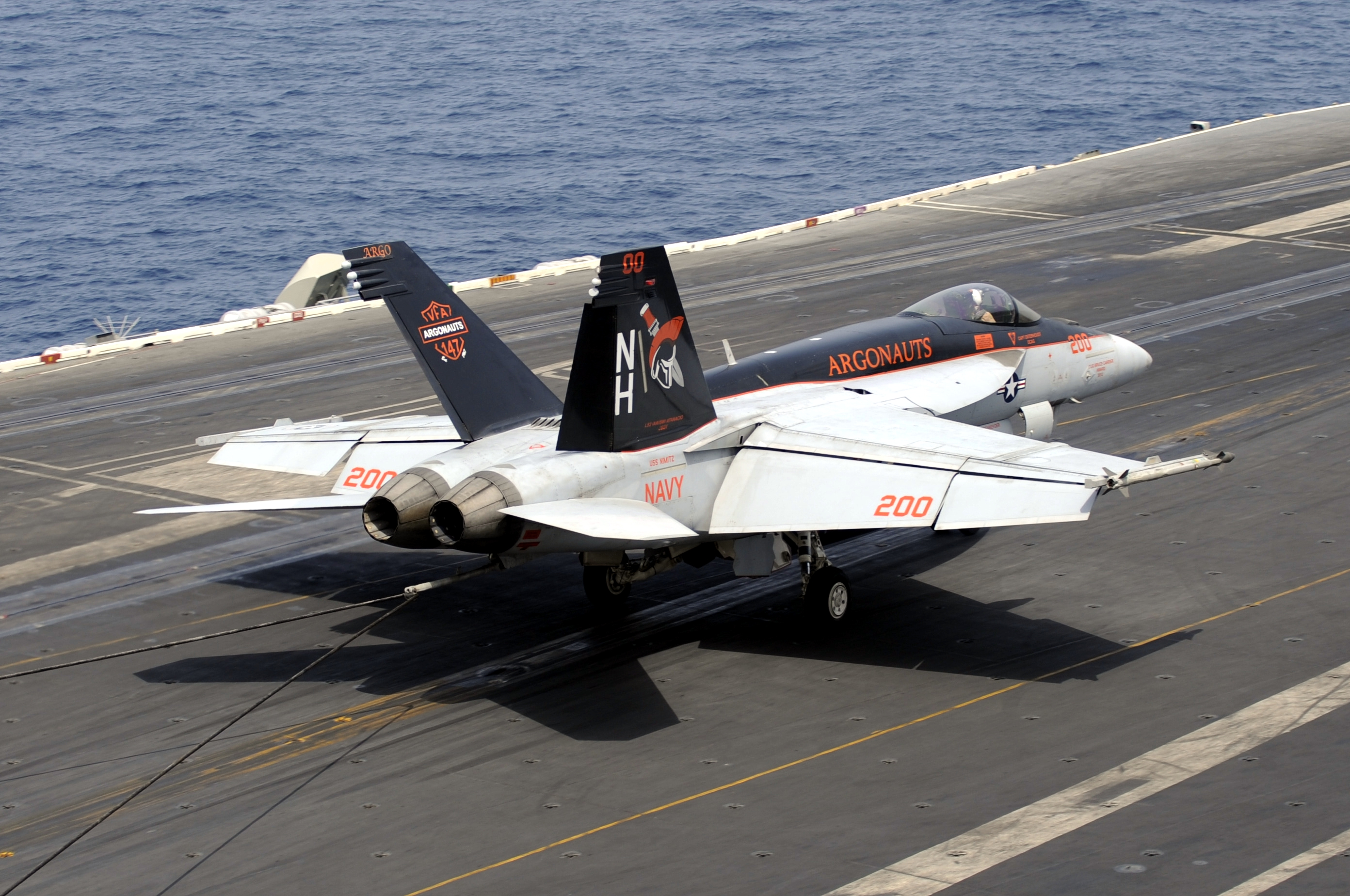 A U.S. Navy Boeing F/A-18E Super Hornet (BuNo 166437) from the "Argonauts" of Strike Fighter Squadron (VFA) 147 lands on the flight deck of the aircraft carrier USS Nimitz (CVN-68) in the Gulf of Oman. VFA-147 was assigned to Carrier Air Wing 11 (CVW-11) aboard the Nimitz for a deployment to the Western Pacific and the Indian Ocean since 30 March 2013.